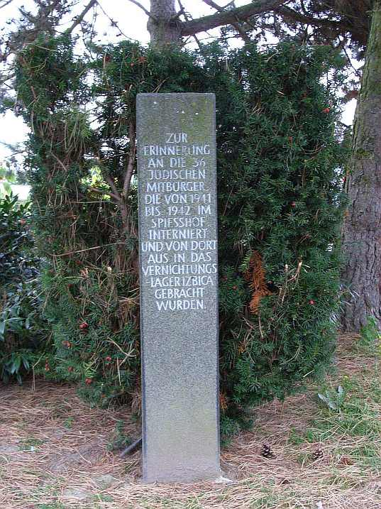 monument for the Deportation of 36 jewish people from Erkelenz, Germany